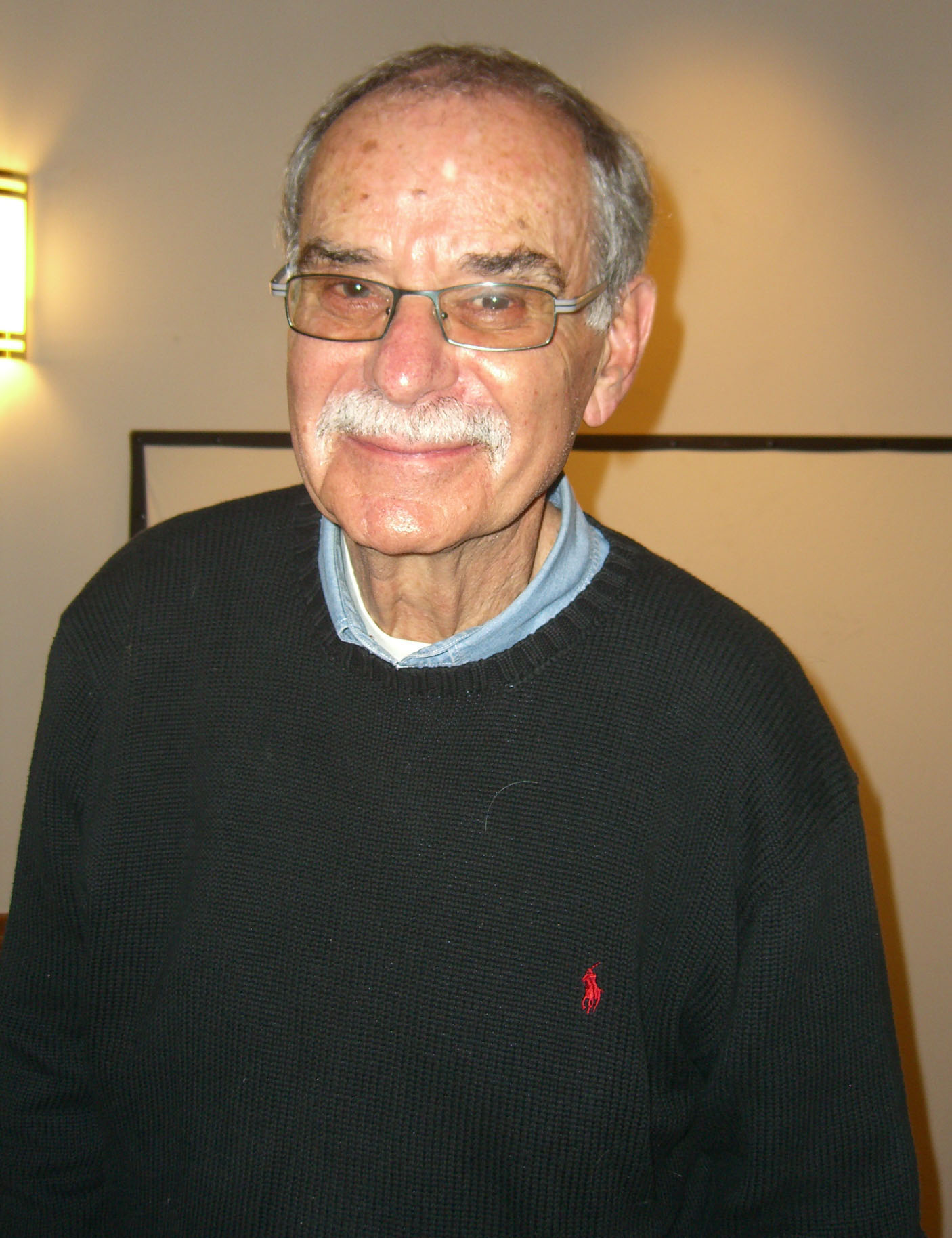 Comic book creator Stan Goldberg at the November 2008 Big Apple Convention in Manhattan.